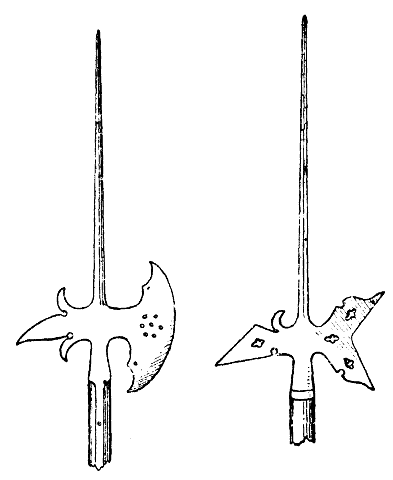 Swedish helberds from the 16th century